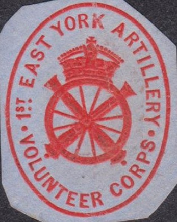 Letterhead of the 1st East Yorkshire Artillery Volunteers, c1900